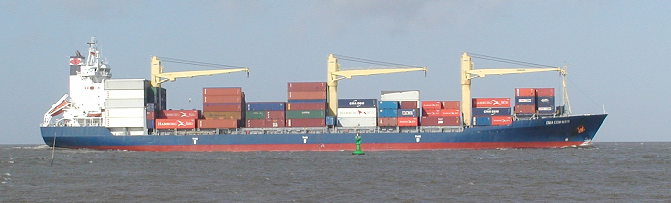 Das Containerschiff CMA CGM Maya IMO Number: 9088524 MMSI Number: 304277000 Callsign: V2LA5 Length: 178 m Beam: 28 m